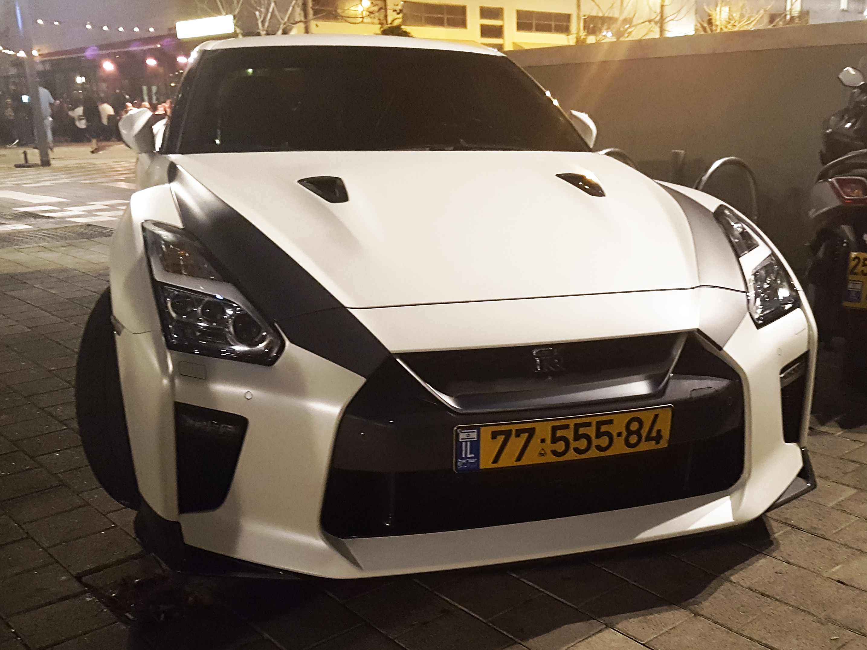 ניסאן GTR בשדרות רוטשילד